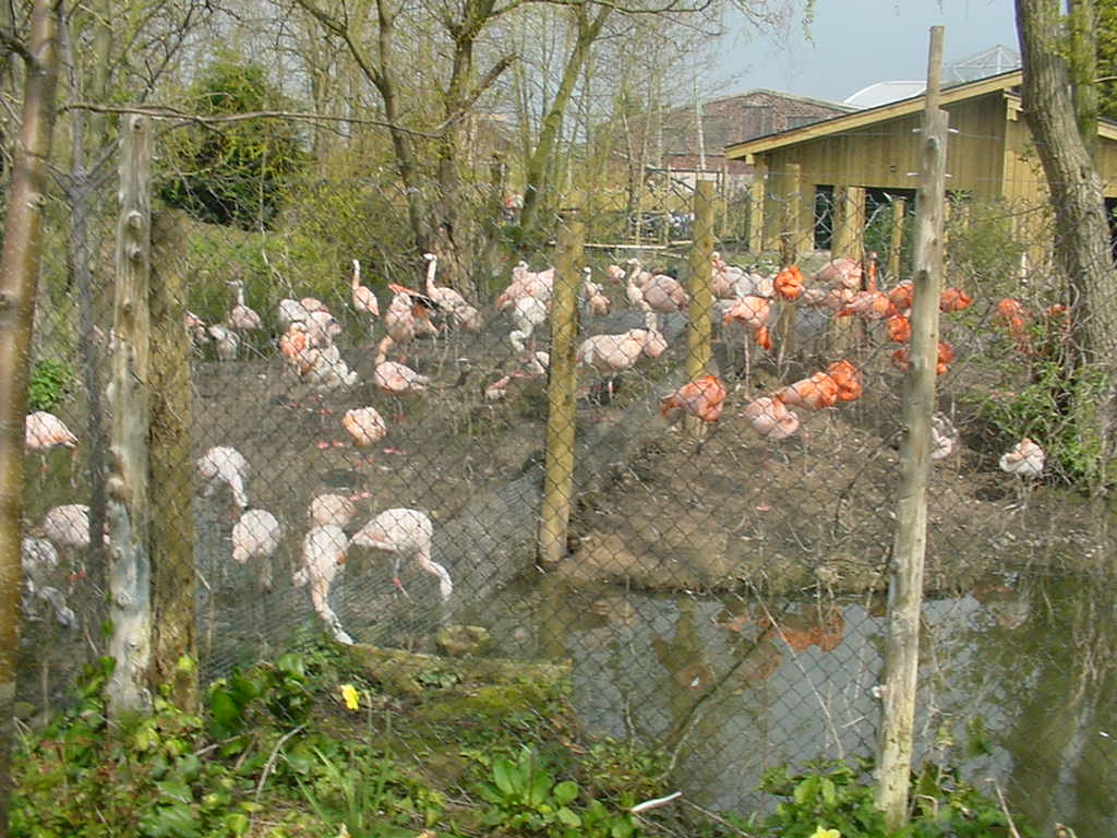 Flamingos at Chester Zoo